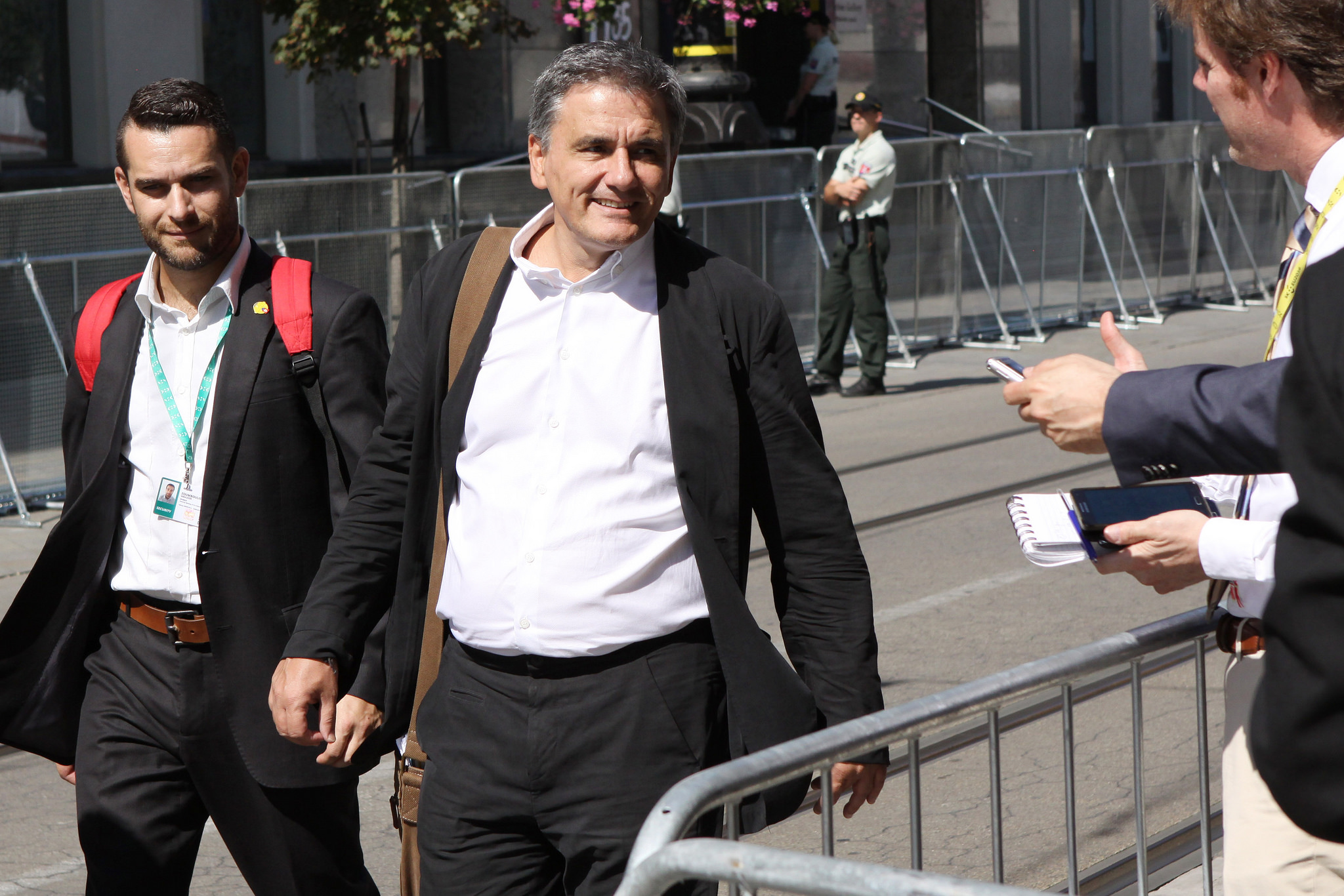 Euclid Tsakalotos at an informal meeting of ECOFIN in Bratislava.